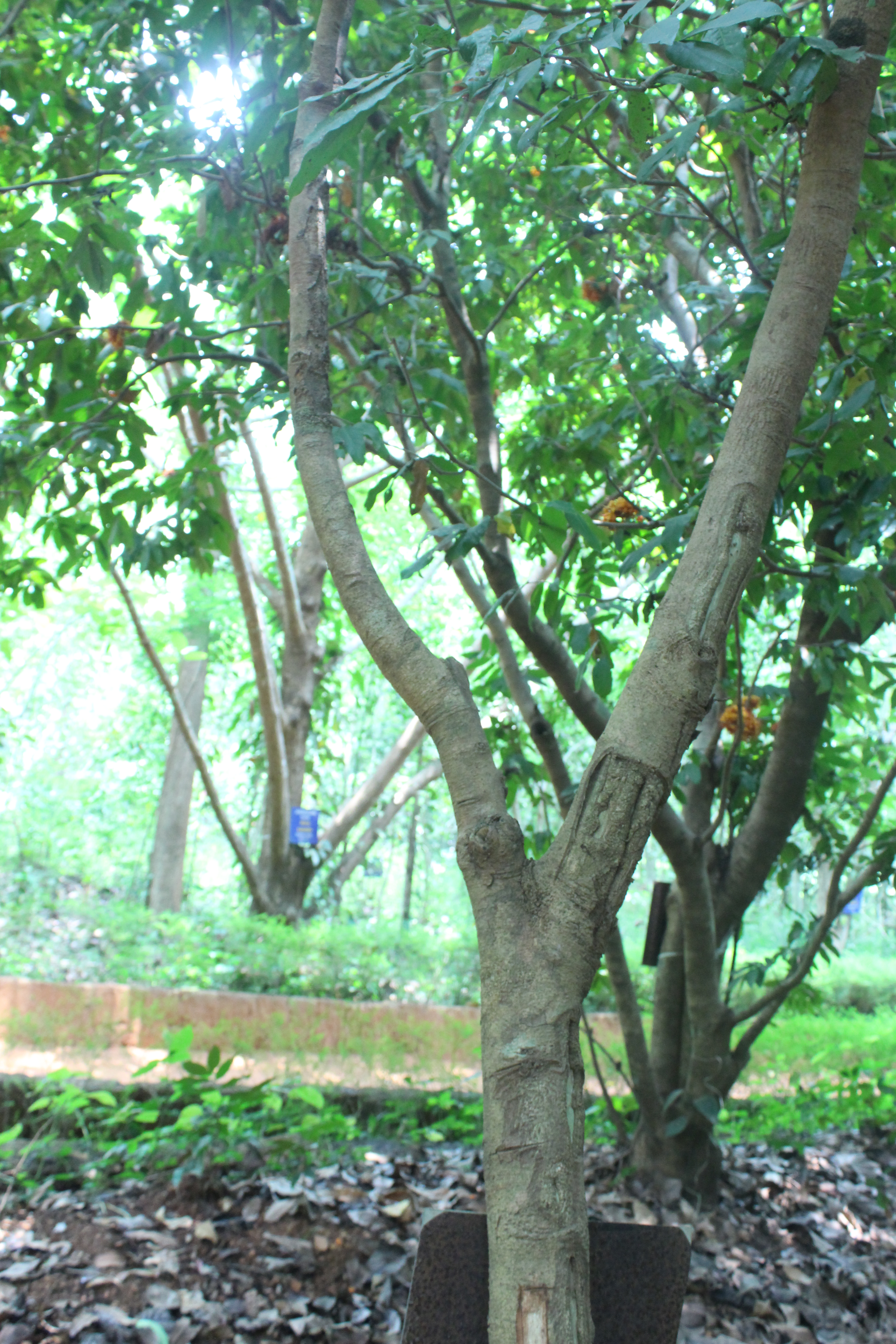 holarrhena-antidysenterica ಕನ್ನಡ: ಕೋಡಸಿಗ